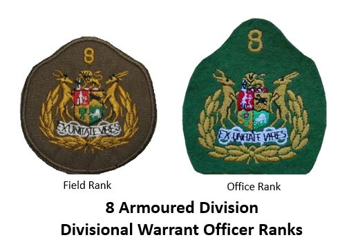 SADF 8 Armoured Division Warrent Officer insignia